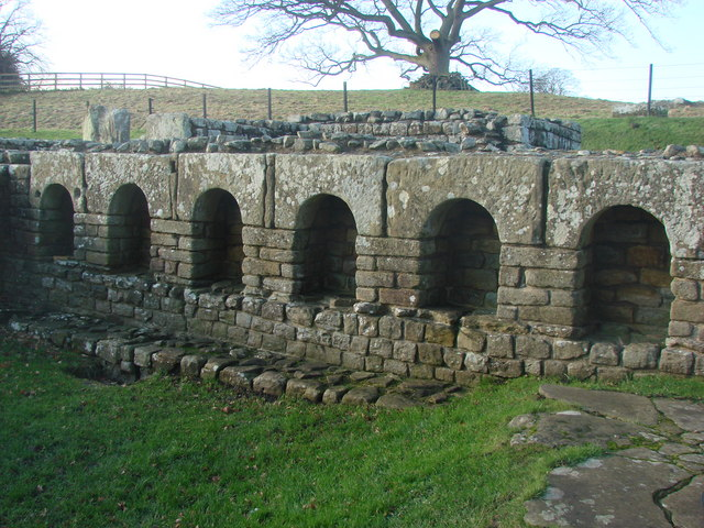 The Bath House, Chesters Fort, Hadrian's Wall.